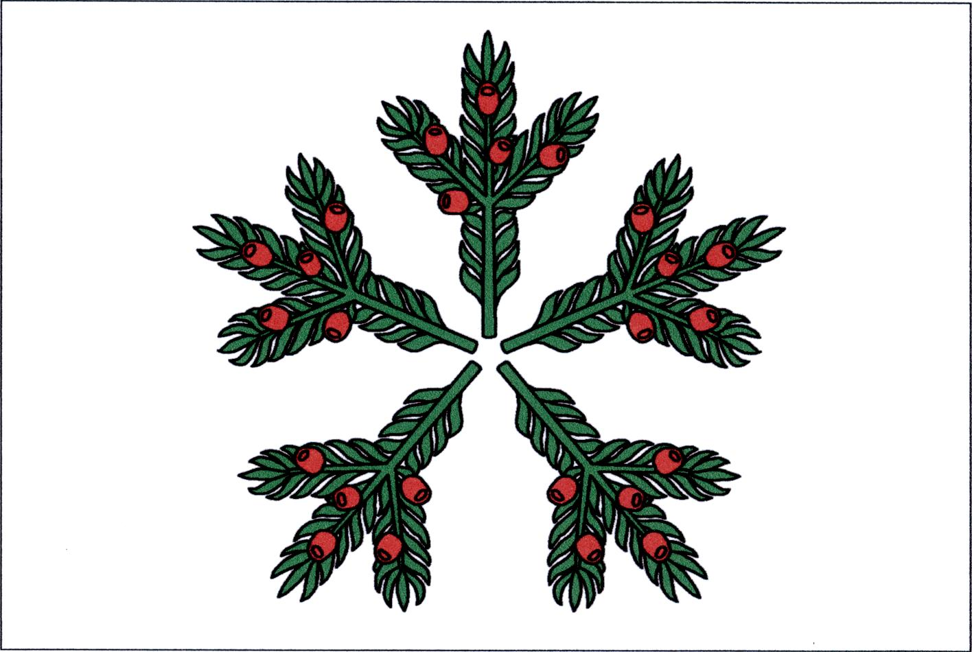 Flag of Tisovec, Chrudim District